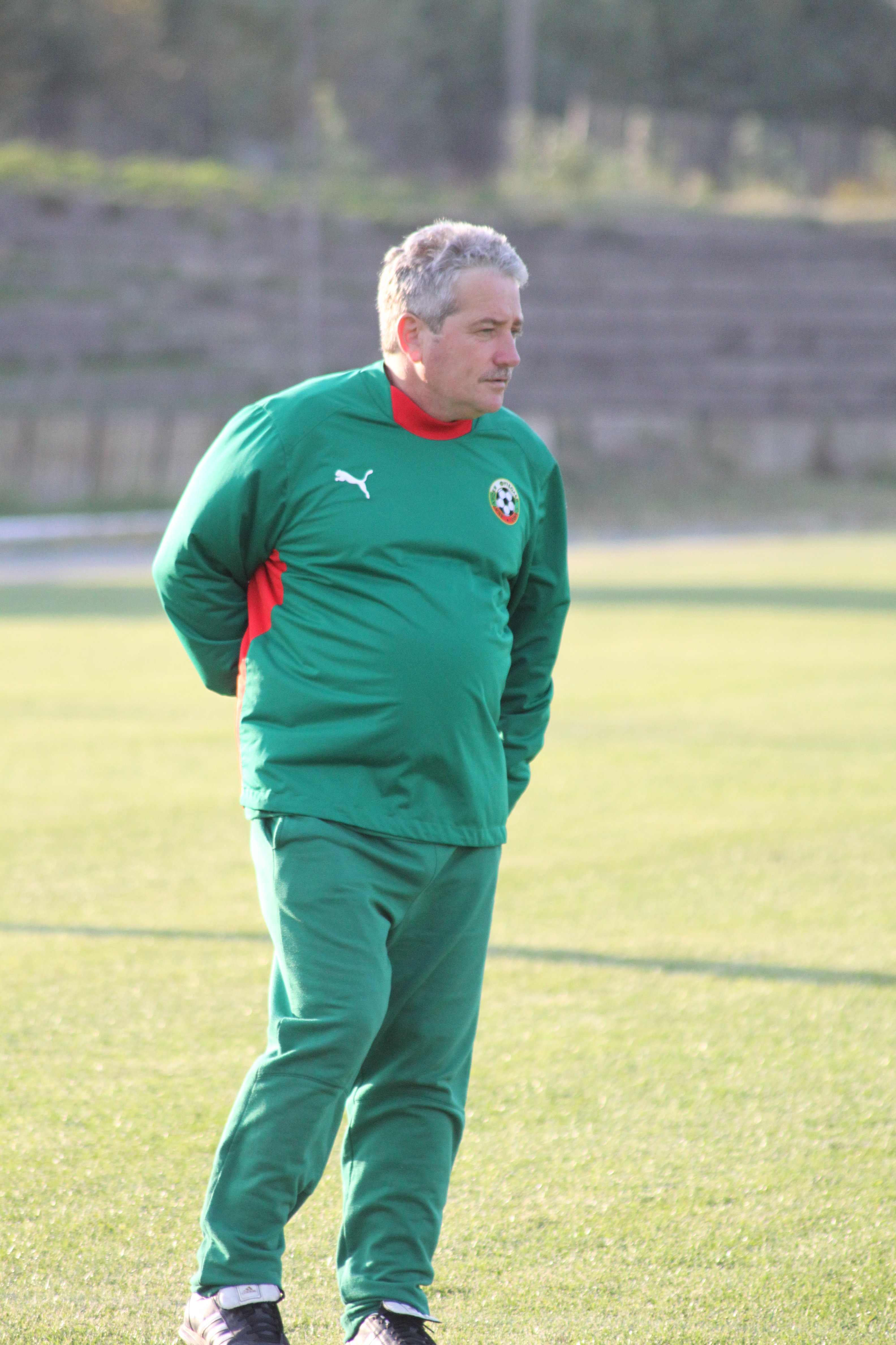 Ferario Spasov - coach bulgarian national soccer team U-17